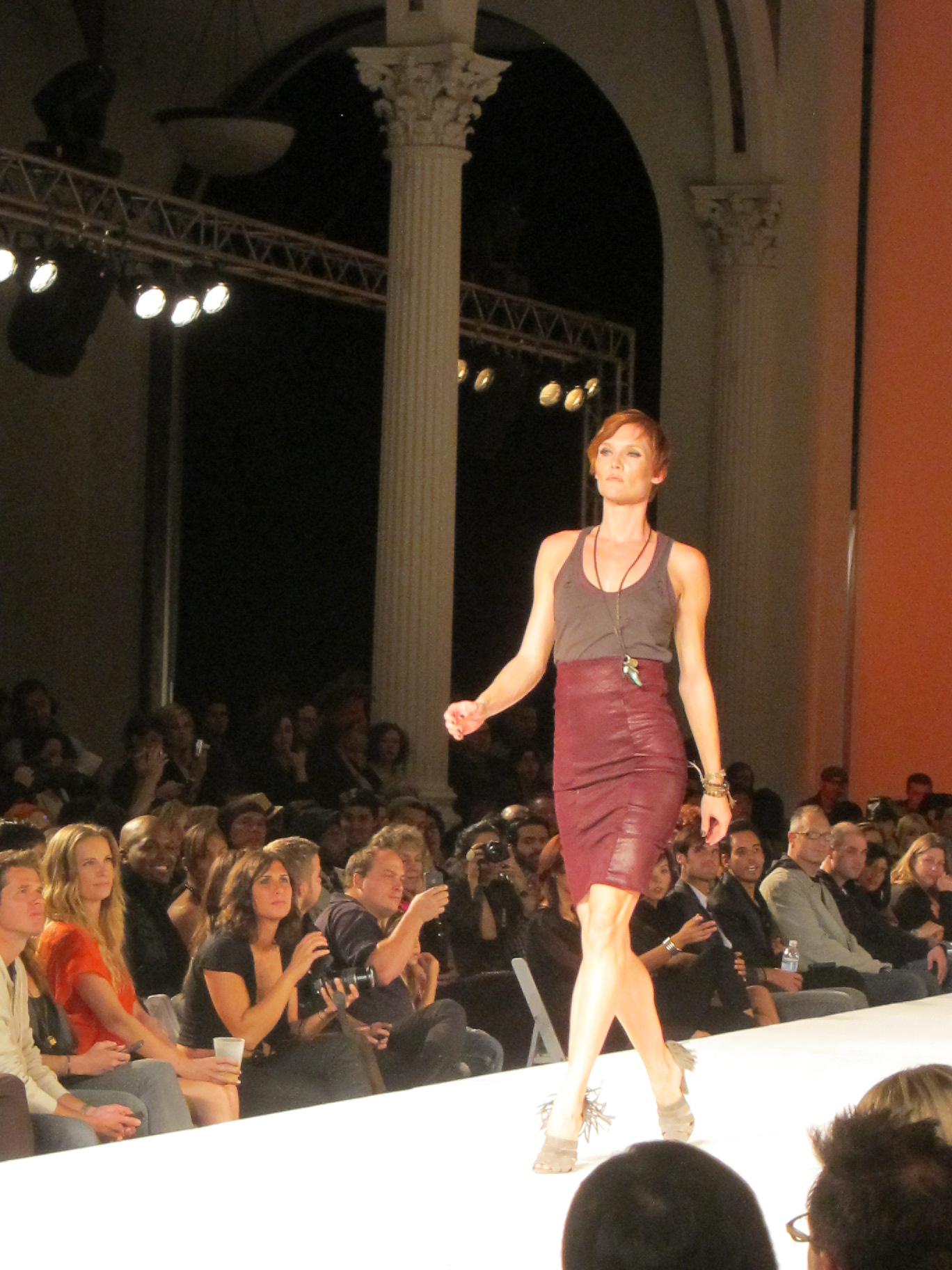 Future Heretics 2011